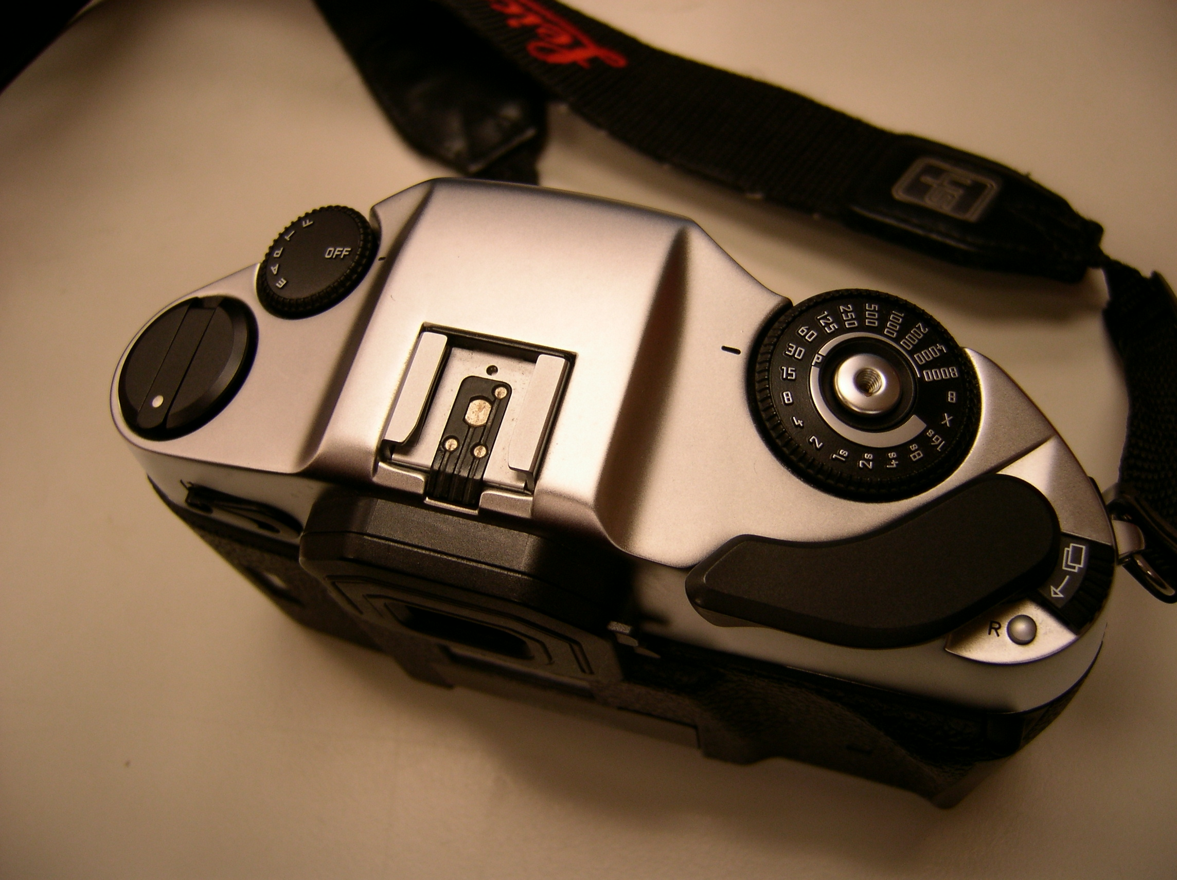 Leica R8 35mm film camera (top view).